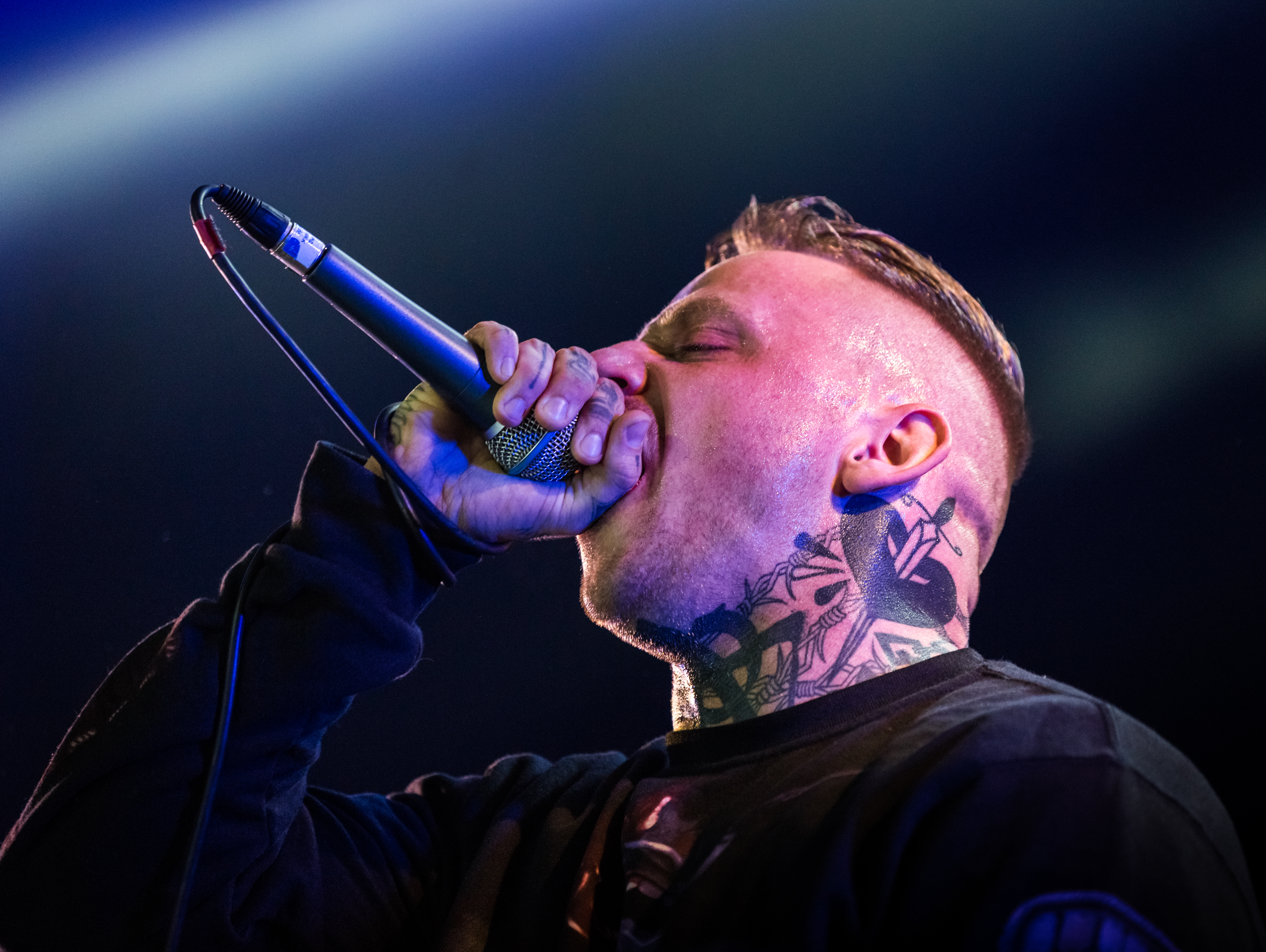 Nasty - Wacken Open Air 2016